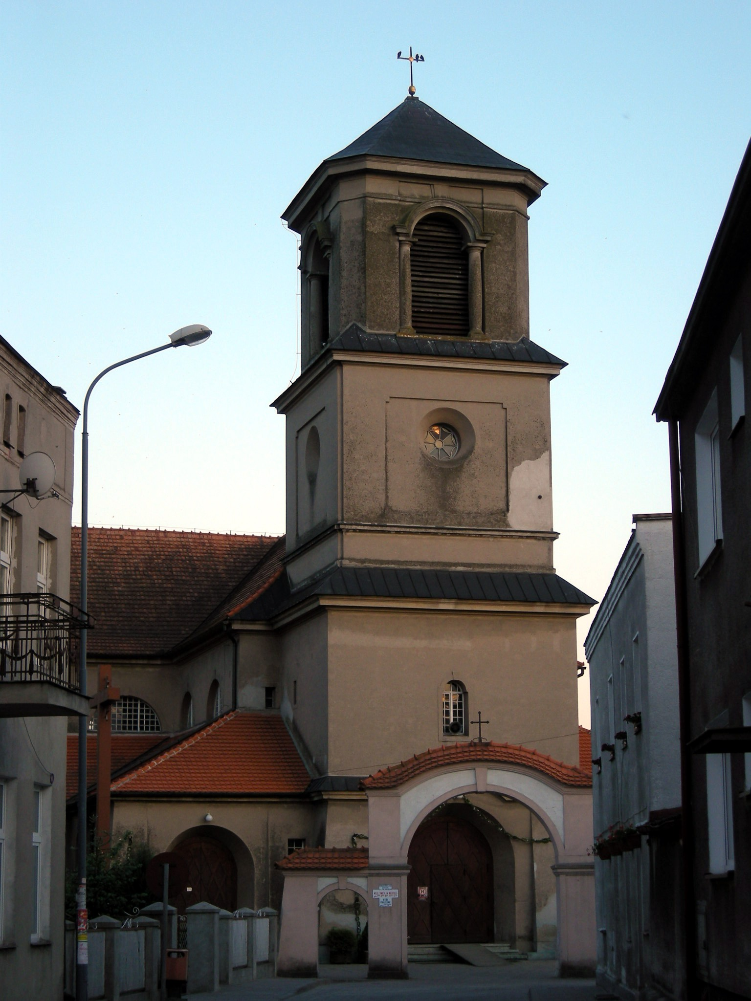 The church in Mrocza, Poland.